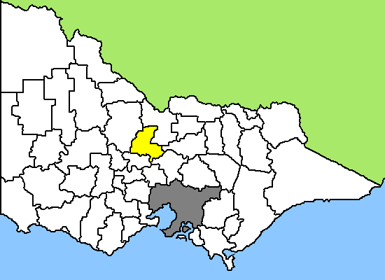 Map of Victoria/Australia, LGA of the City of Greater Bendigo highlighted